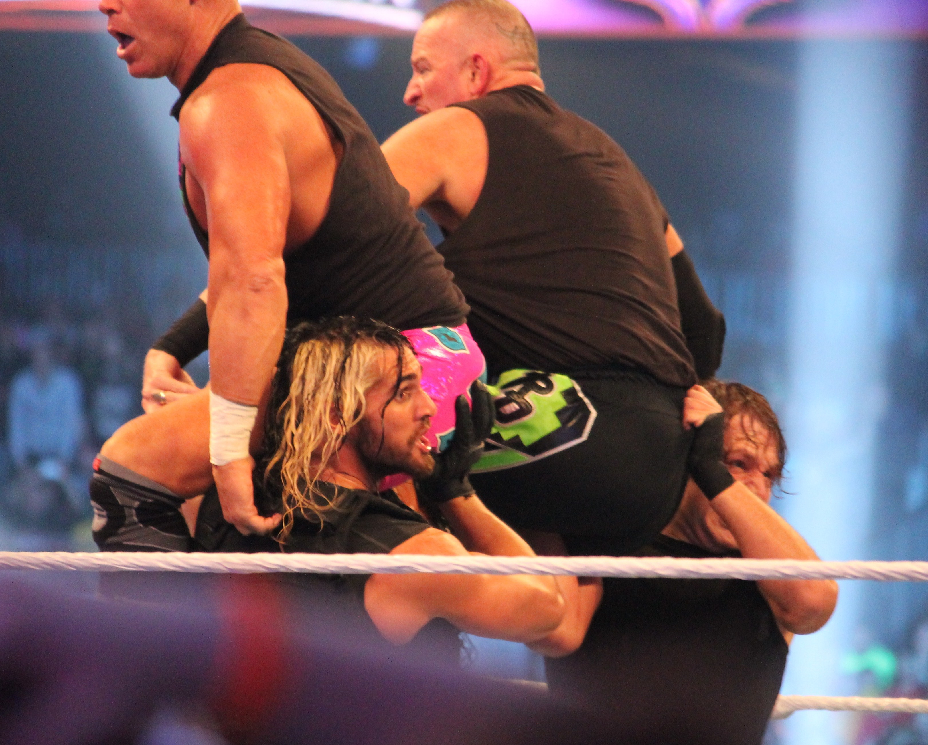 The Shield deliver a double Triple Powerbomb to the New Age Outlaws at WrestleMania XXX on 6 April 2014 in the Mercedes-Benz Superdome in New Orleans, Louisiana.